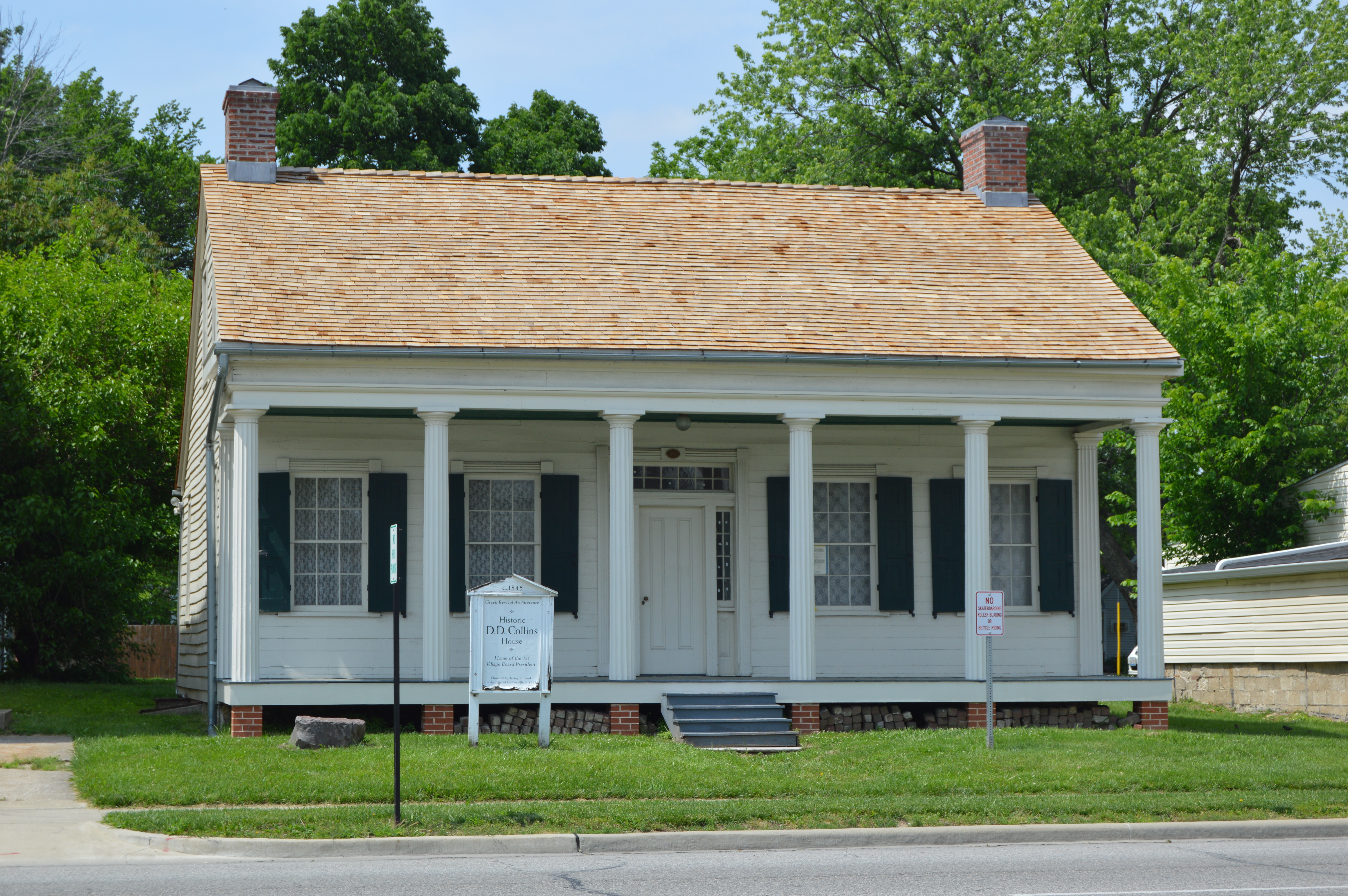 Western side and front of the Daniel Dove Collins House, located at 621 W. Main Street in Collinsville, Illinois, United States. Built in 1845, it is listed on the National Register of Historic Places.